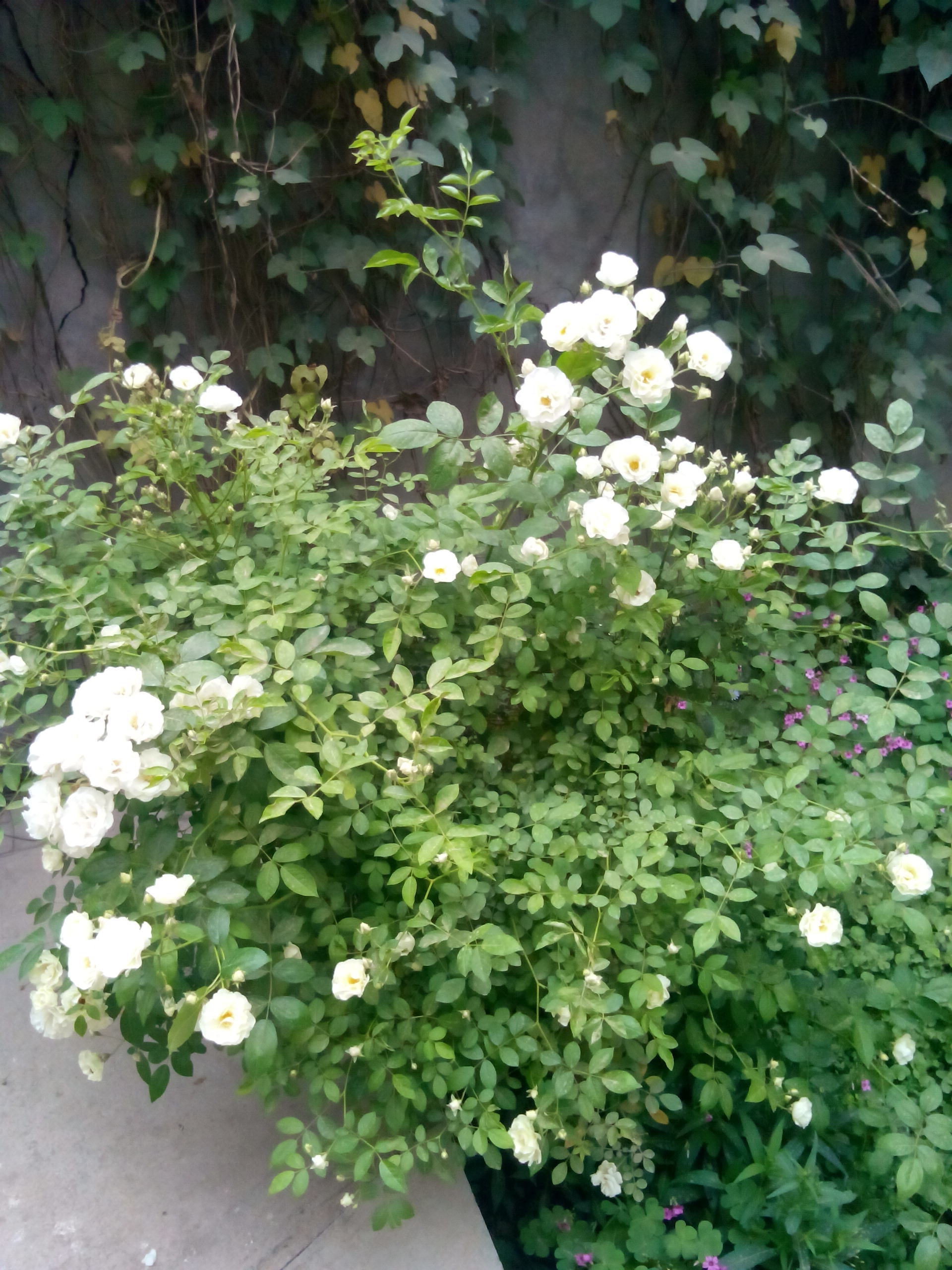 Wight Flowers in the Garden